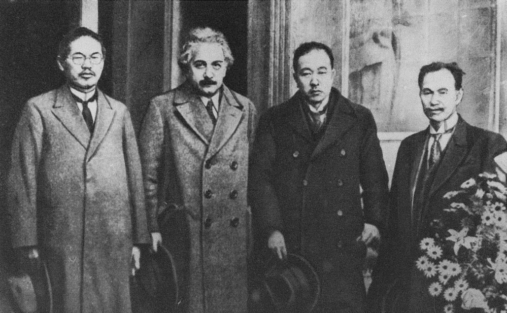 Photo from Albert Einstein's 1922 visit to Tohoku University. From the left: Kotaro Honda, Albert Einstein, Keiichi Aichi, Sirouta Kusukabe.